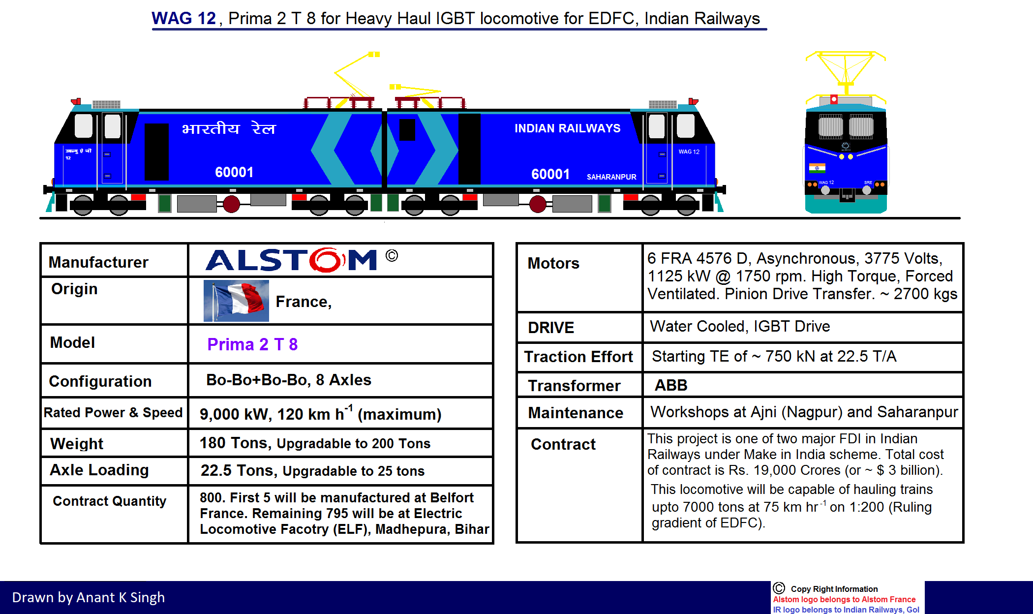 Sketch showing details of WAG 12 Locomotive